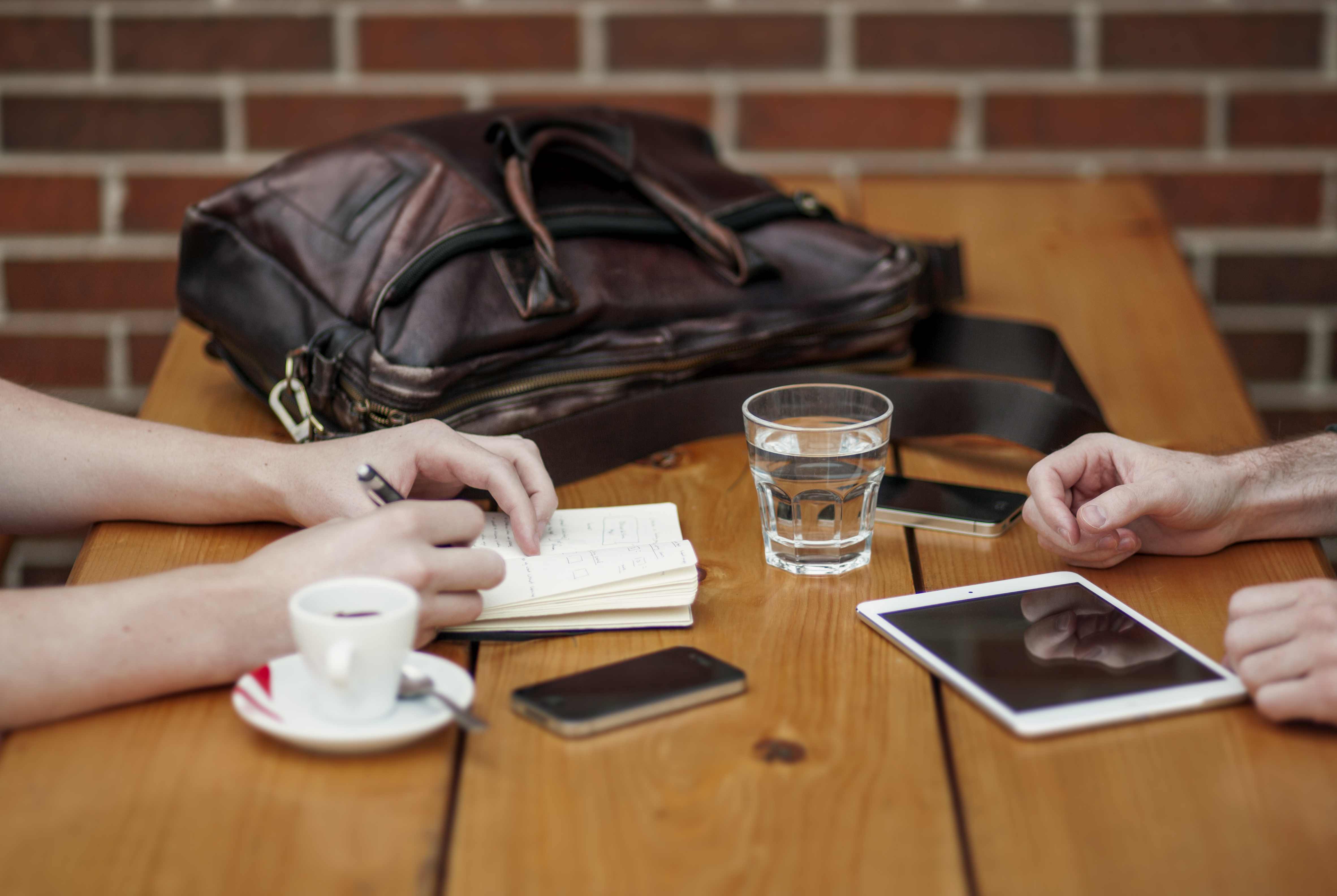 Alejandro Escamilla 2013